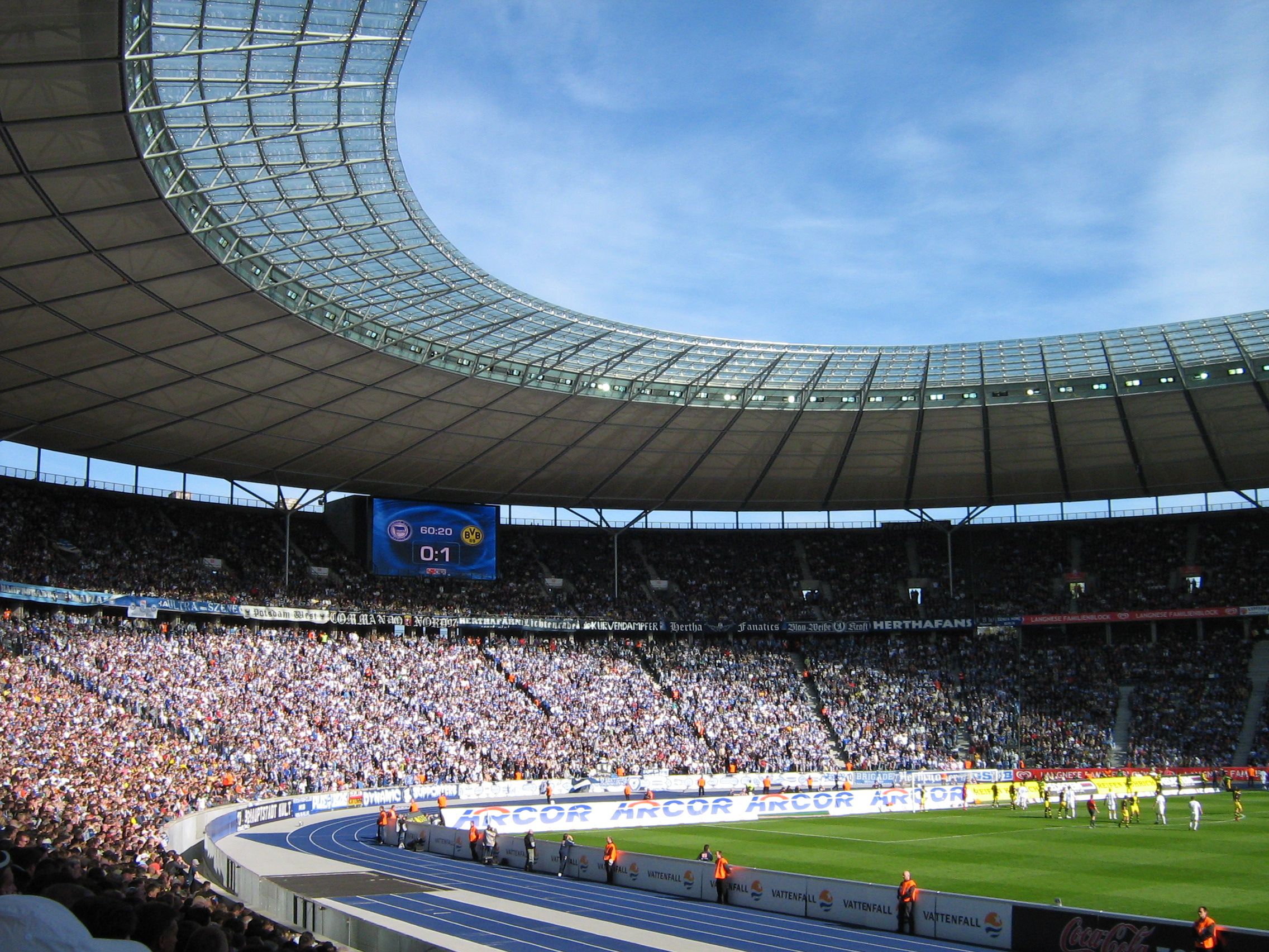 Berlin Olympic Stadium during the Bundesliga-footballmatch Hertha BSC Berlin vs. Borussia Dortmund.